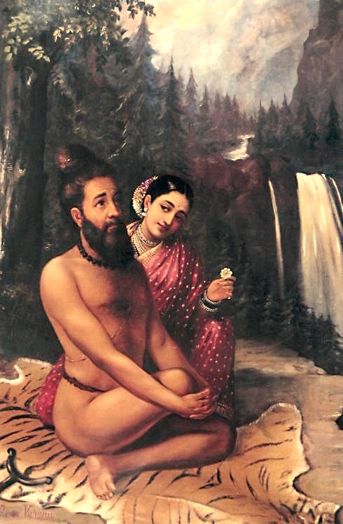 Menaka and Viswamitra